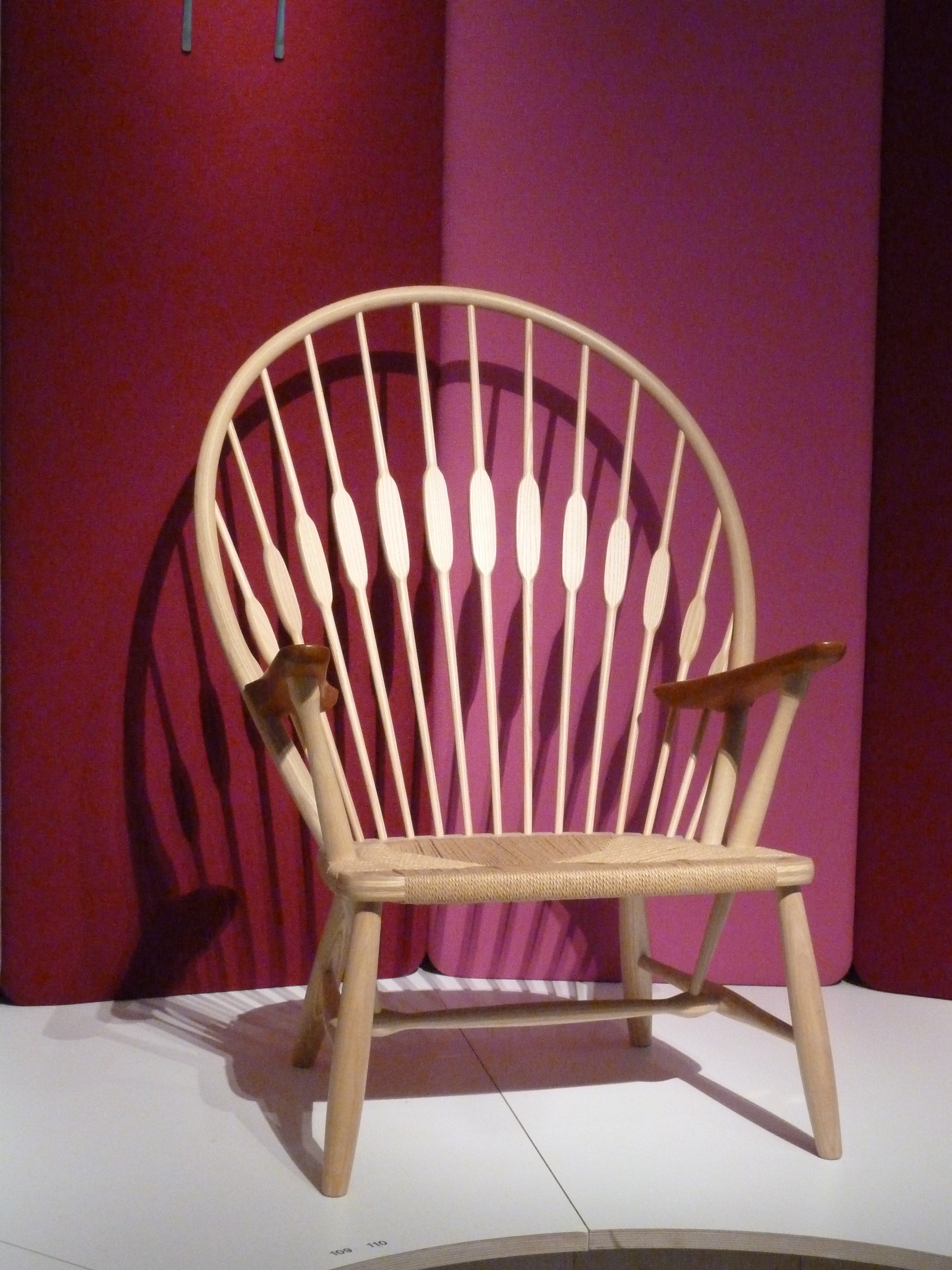 Hans J. Wegner's Peacock chair on display in Designmuseum Danmark